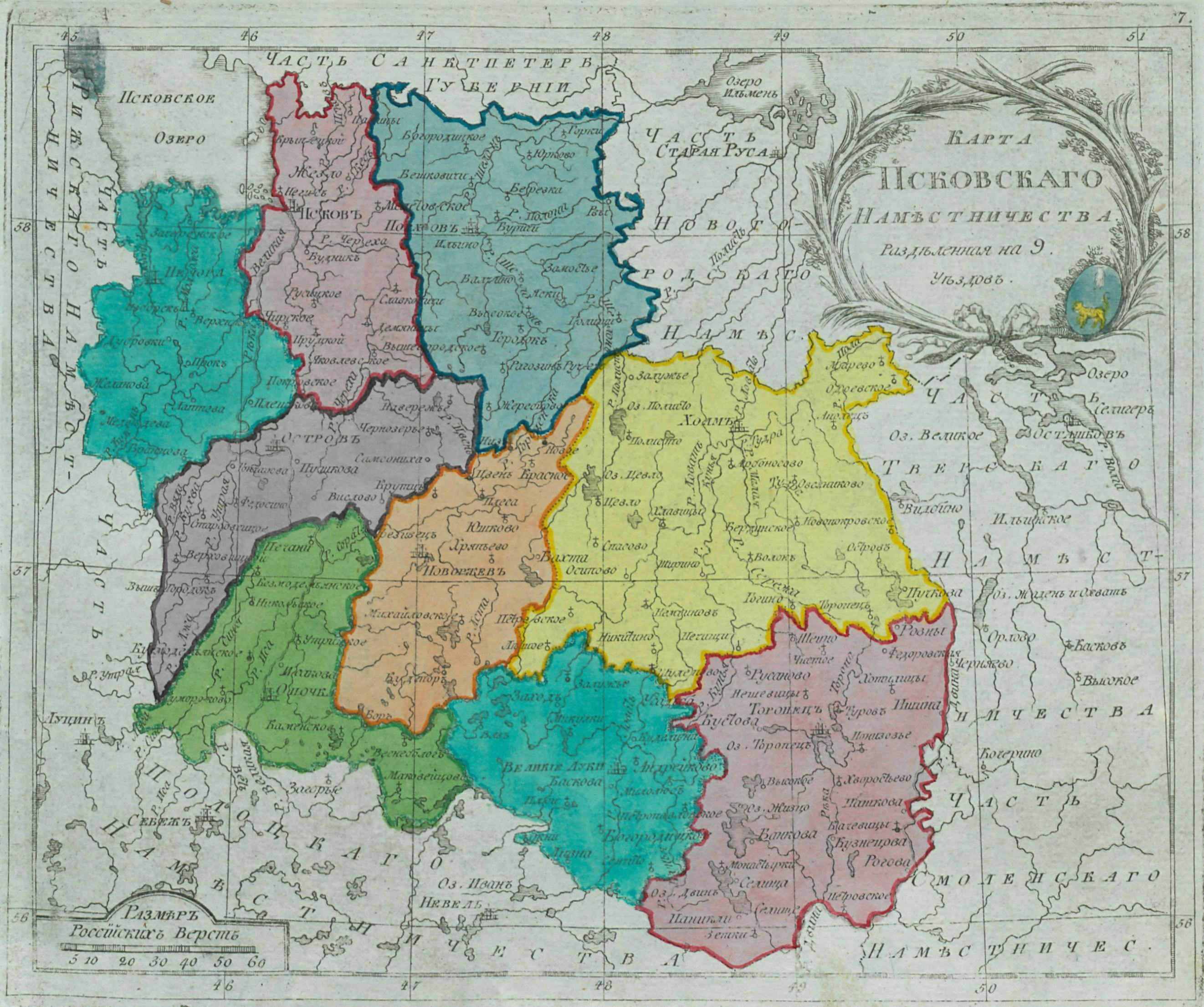 Small atlas of the Russian Empire (1792). Map of Pskov Namestnichestvo (map 6).